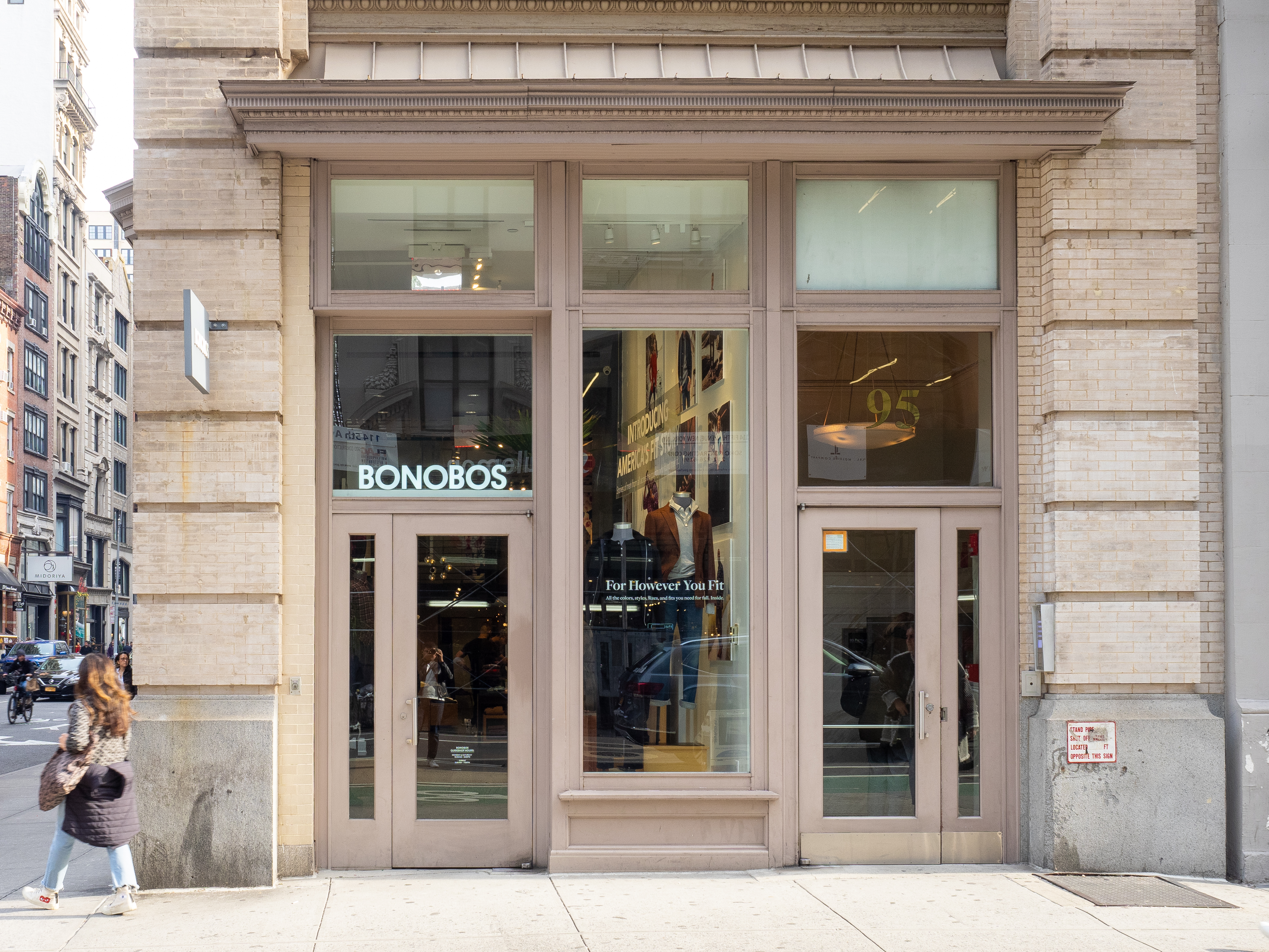 Chelsea, Manhattan, NYC